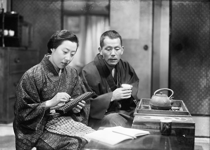 Chishū Ryū and Isuzu Yamada in Waga ya wa tanoshi (1951) directed by Noboru Nakamura